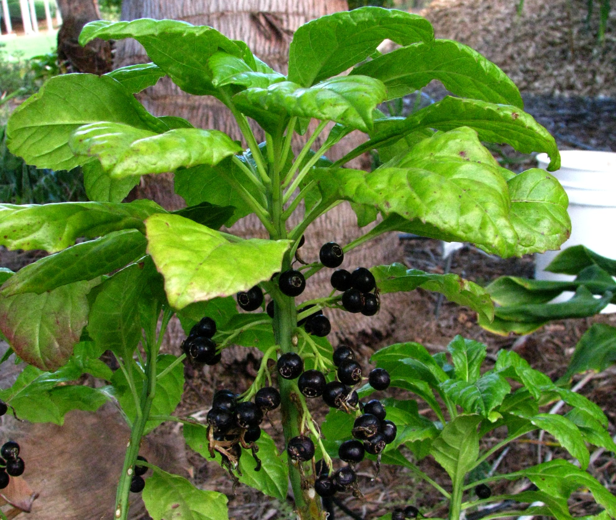 Delissea Campanulaceae Endemic to the Hawaiian Islands (Kauaʻi only) Endangered Oʻahu (Cultivated) Planted in the ground.